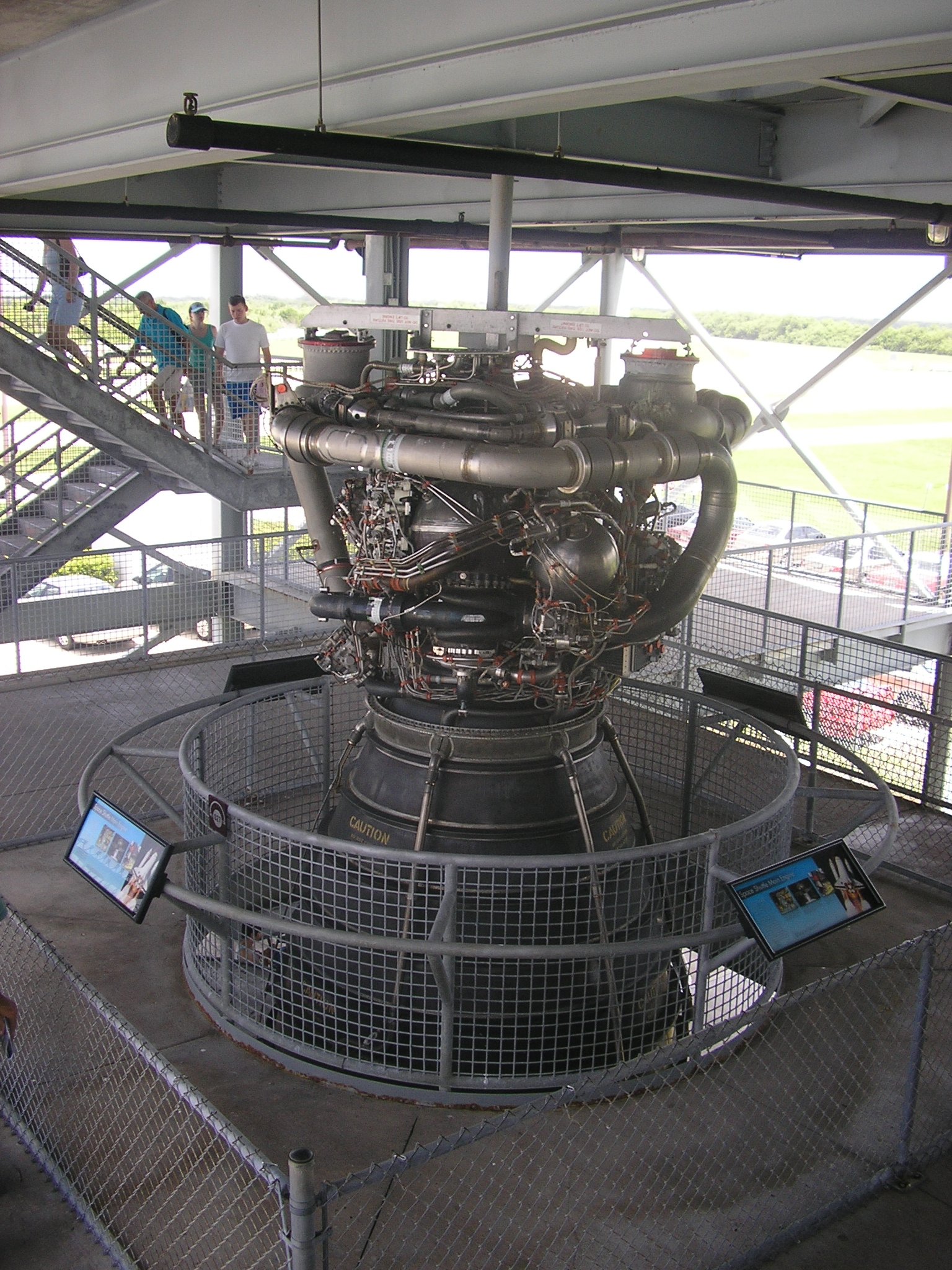 Photo of a Space shuttle engine on display at a visitor complex on NASA land in Cape Canaveral, Florida. Taken by myself, I release this into the Public Domain.